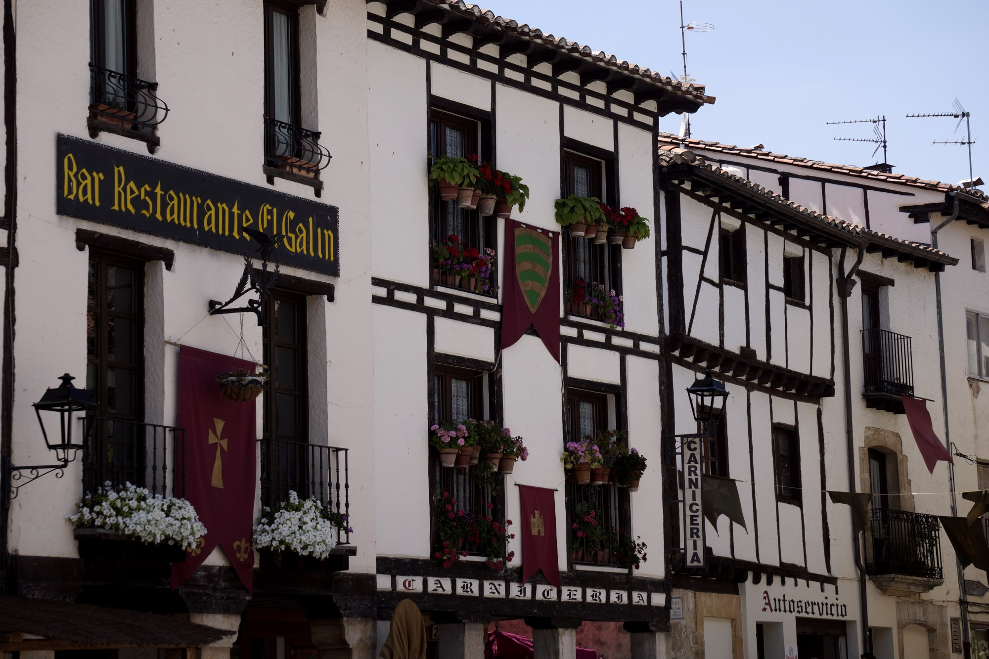 Houses in Covarrubias (Province of Burgos)